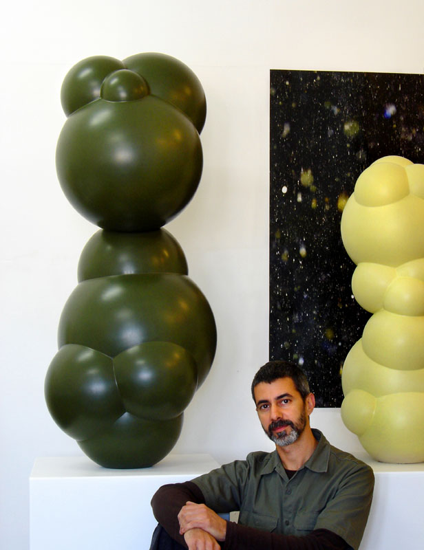 Portrait of artist David Fried (1962, NYC), 2007